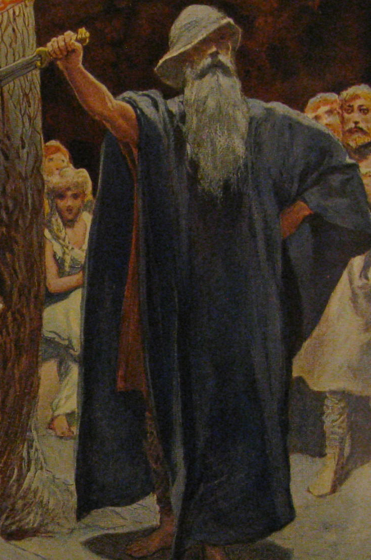 The old man (Odin) places a sword into the tree Barnstokkr after entering the hall of the Völsungs.